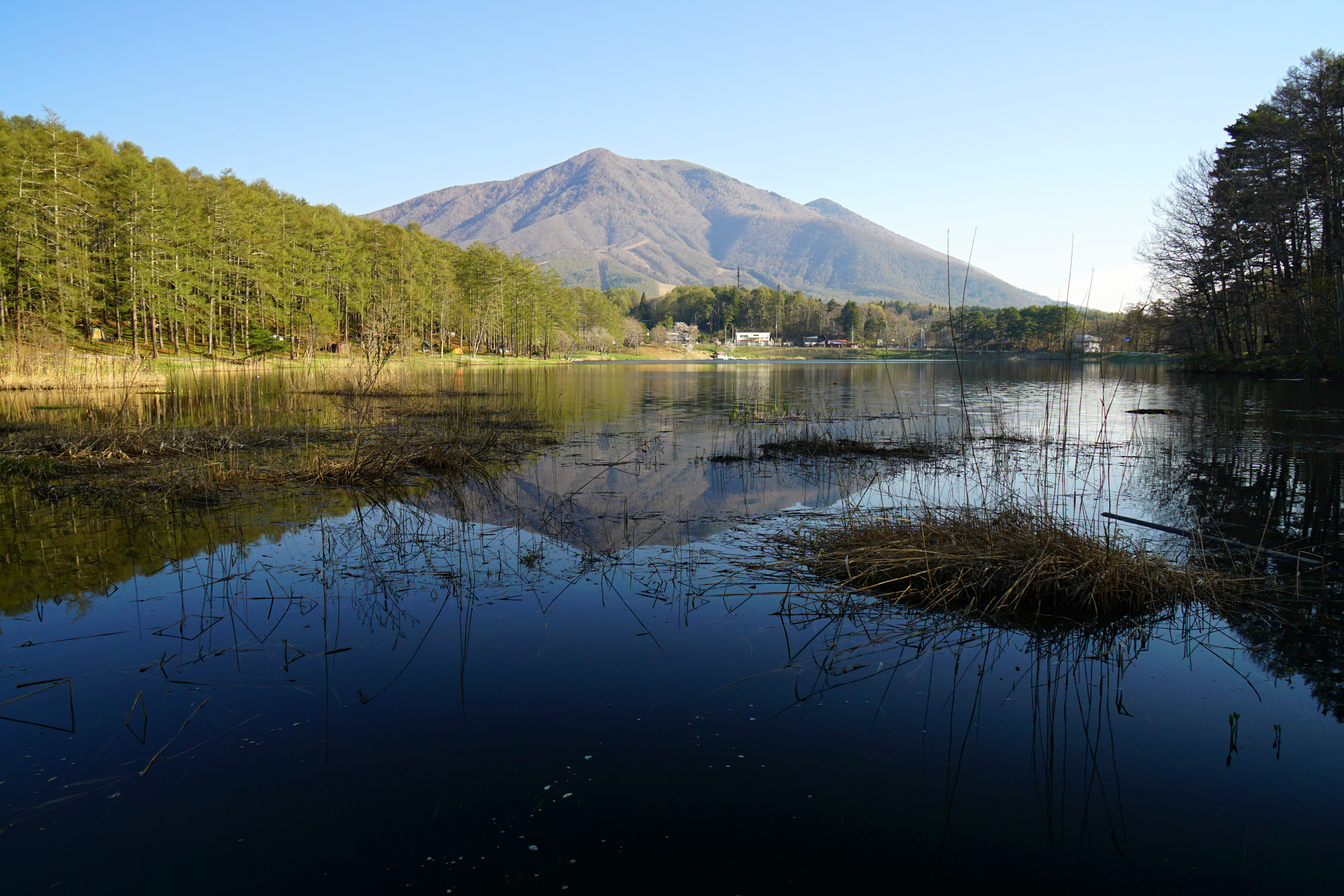 Daizahoushi Pond and Mount Iizuna in Nagano, Nagano prefecture, Japan.